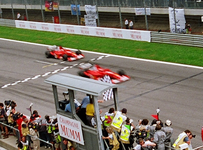 Rubens Barrichello makes way to Michael Schumacher at 2002 Austrian Grand Prix, from English Wikipedia